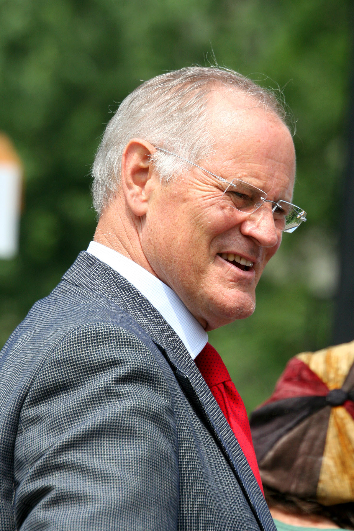 Bill Graham in 2007, photographed by Rod Brito.